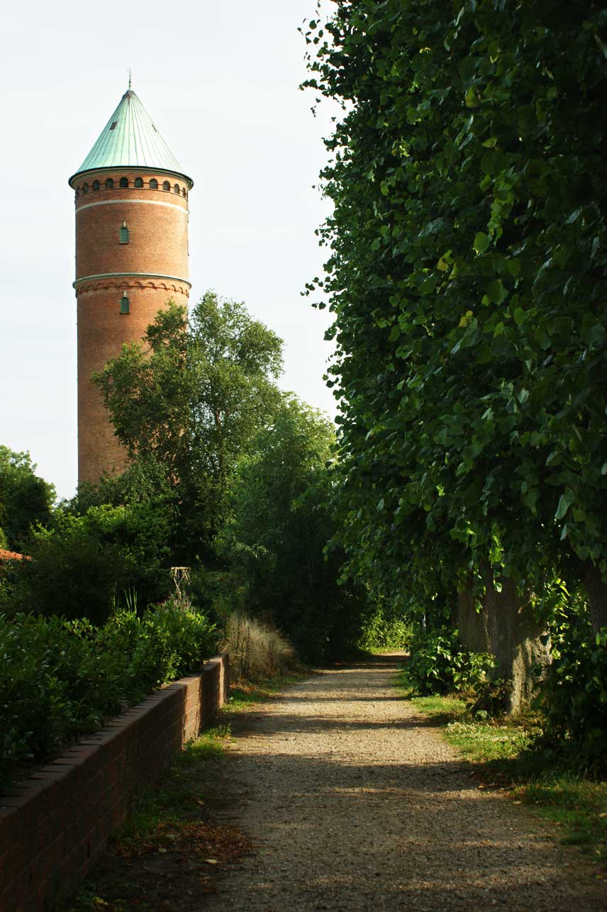 Park in Haderslev, Denmark